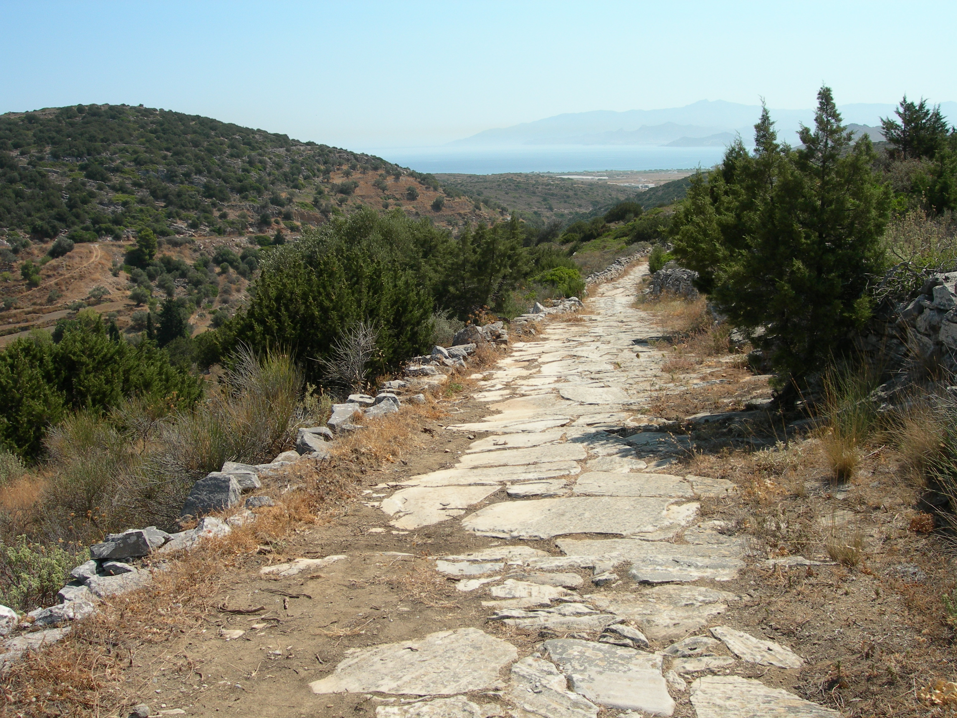 Byzantine path from Prodomos to Lefkes, in Paros